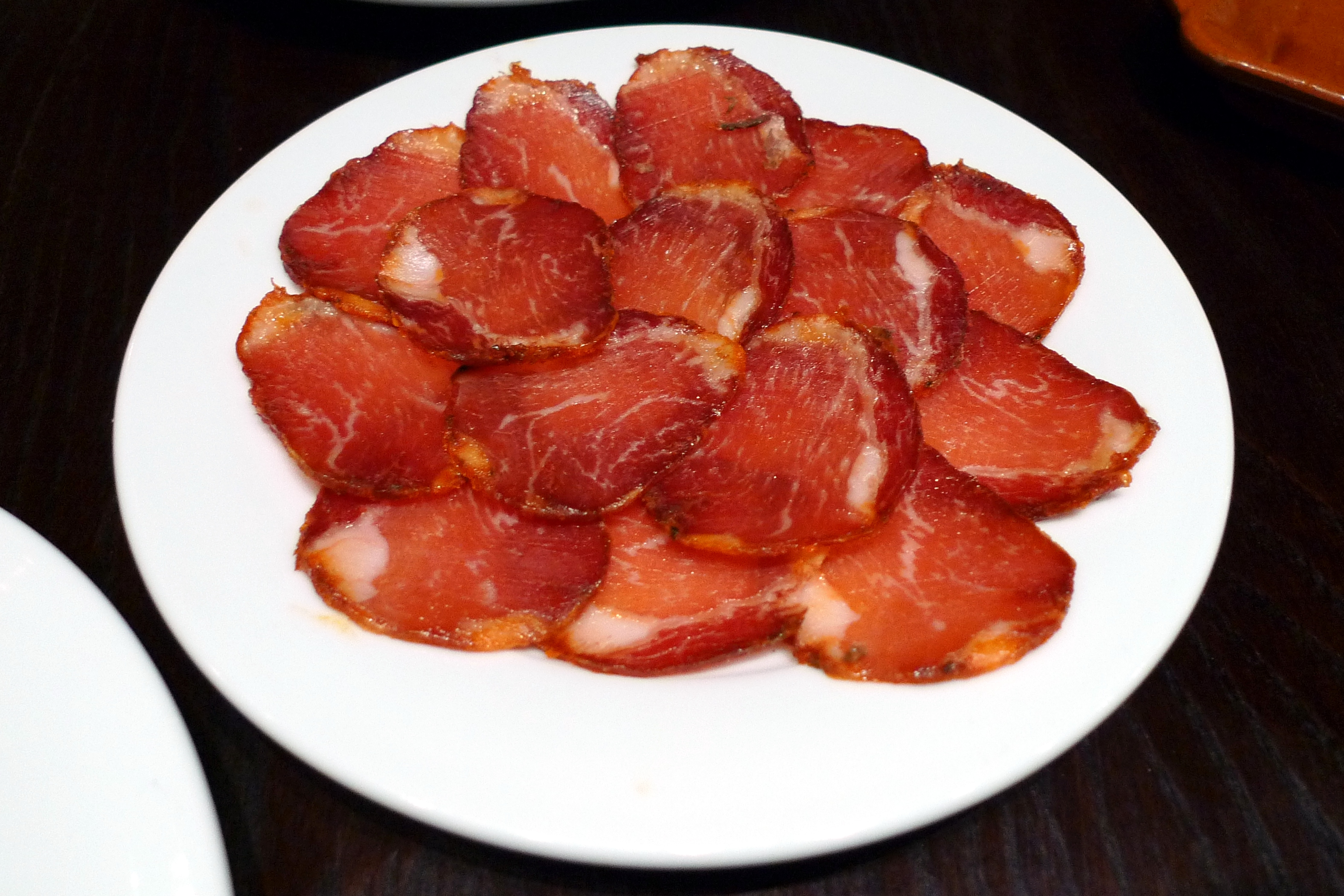 A plate of Lomo Iberico Cebo (40g), very nice meat. At Barrica, Goodge Street.